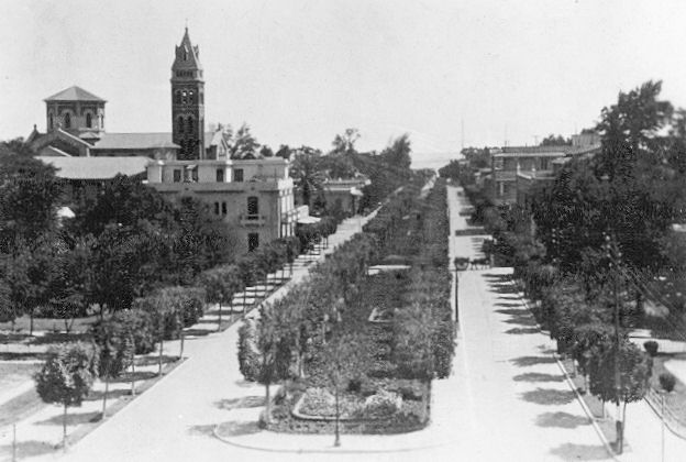 This photo is taken with the photographer's back towards the main railway station. The church on the left side is the Catholic church of Ismailia. [Thanks to Ahmed for this information]